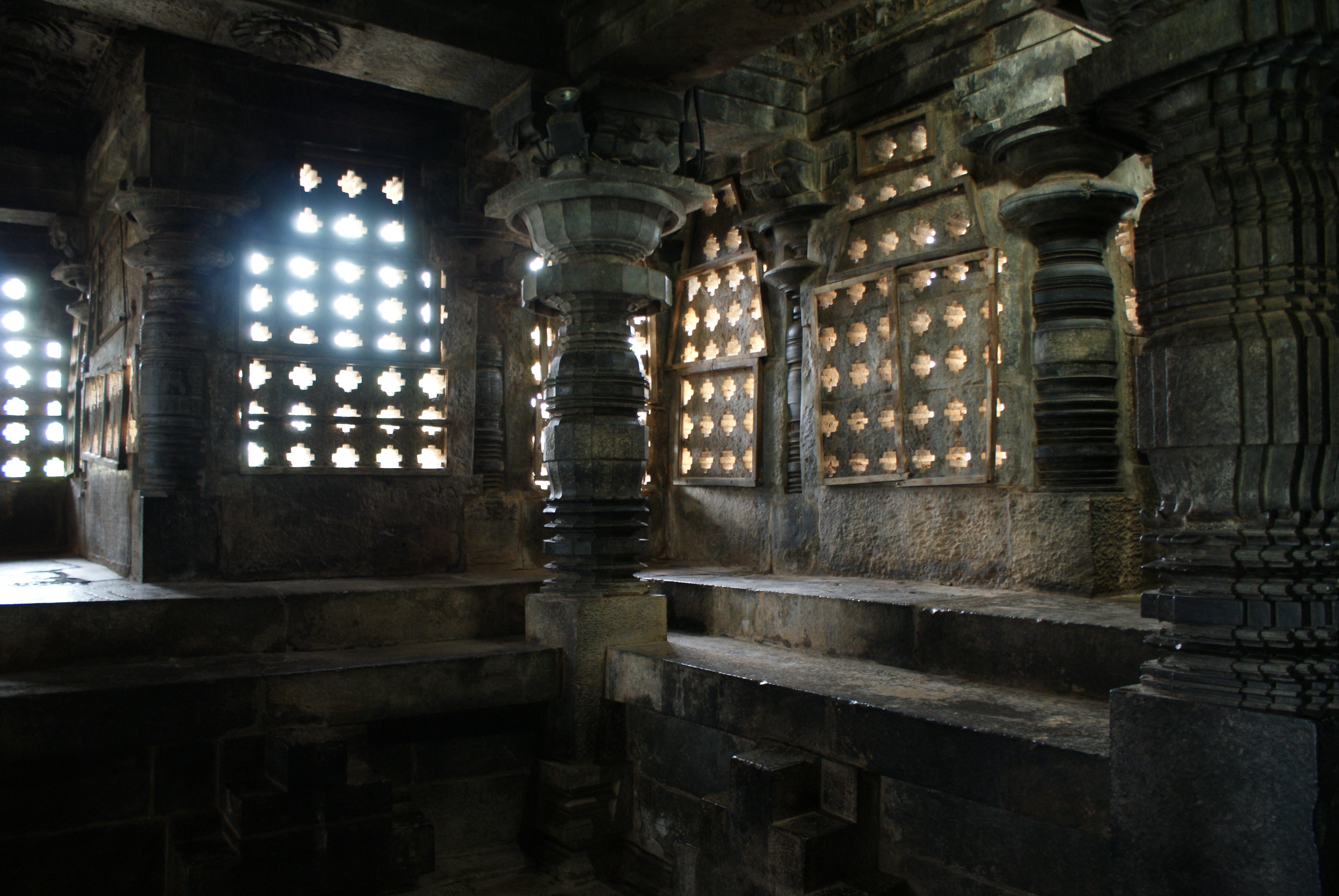 Interior view of the Hoysaleshwara temple (Hoysala era, late 12th century) in Halebid, Karnataka, India